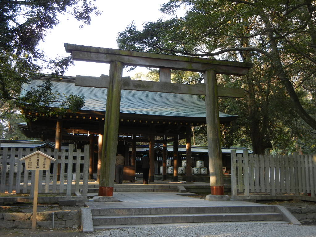 Hinokuma_Shrine. 和歌山県和歌山市にある「日前神宮」, Wakayama.